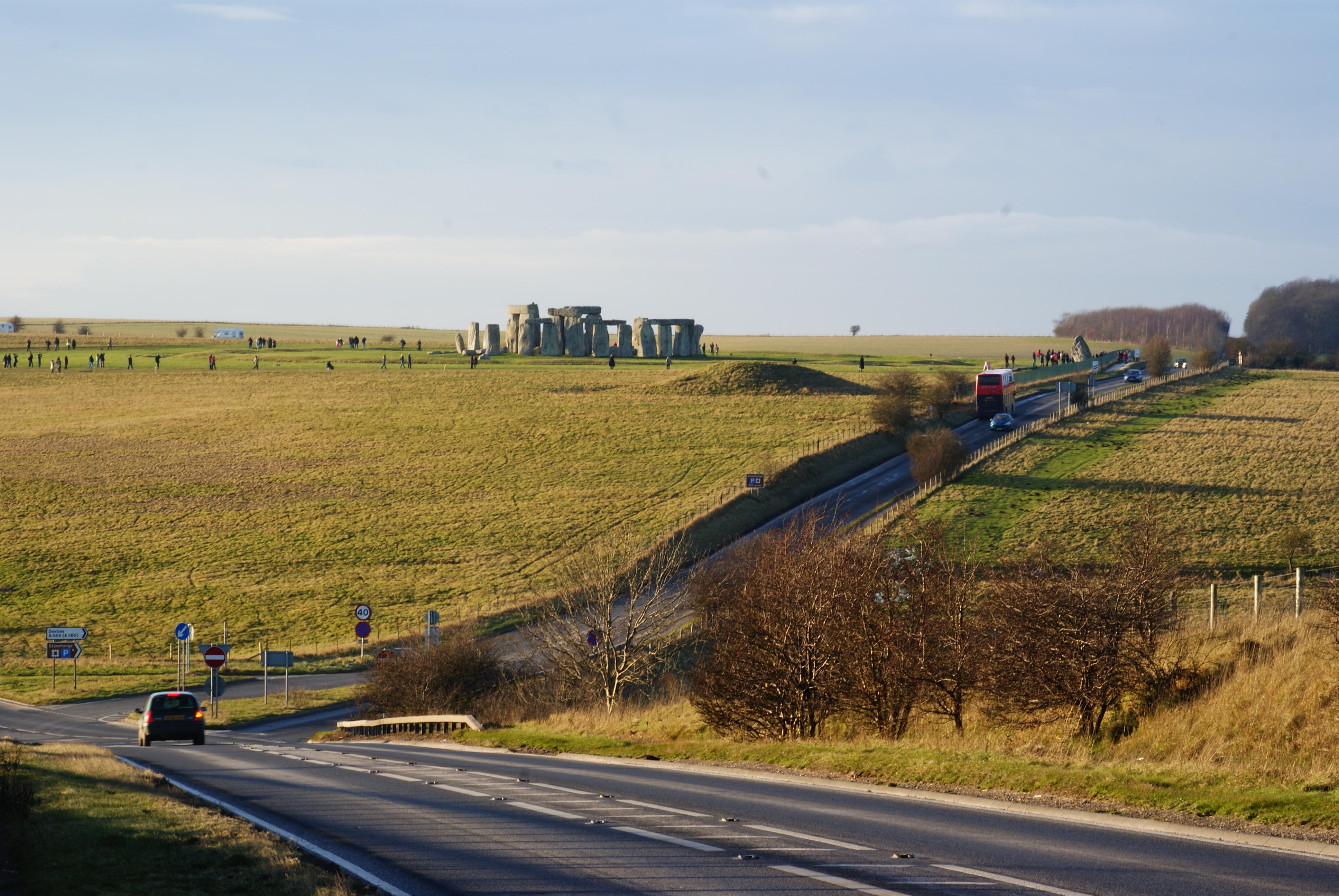 A Class Roads at Stonehenge If work goes to timetable, this view will be consigned to history by 2012. The A303, in the foreground, is planned to be modified. The A344, which passes close to Stonehenge, will be removed; leaving just a short access road from Airman's Corner.